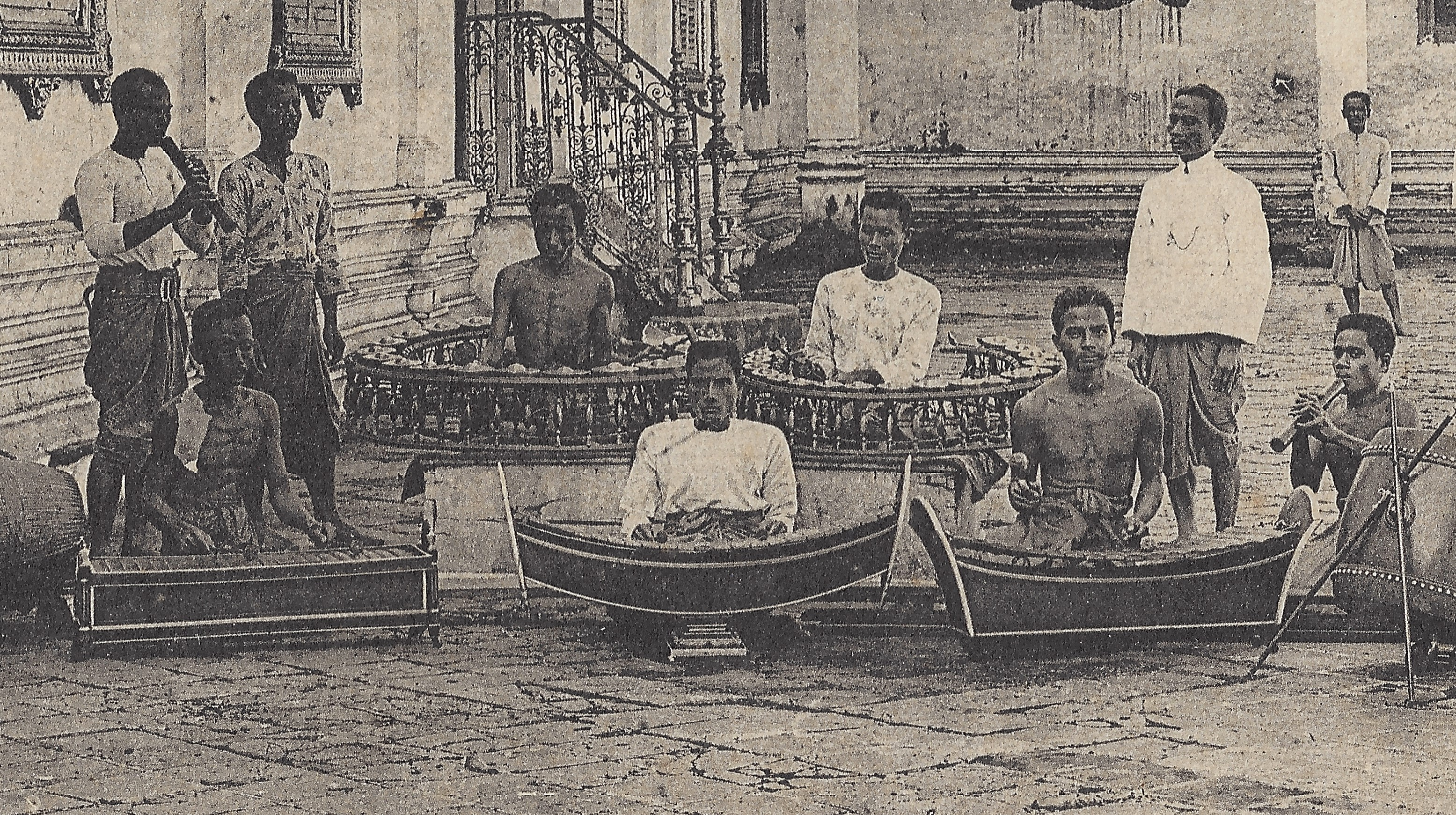 Postcard 1662 by Pierre Dieulefils (mailed in Hanoi, 1907) depicting a Cambodian orchestra, labeled "Orchestre pour les dances royales" (Orchestra for royal dances), at Phnom Penh, Cambodia.